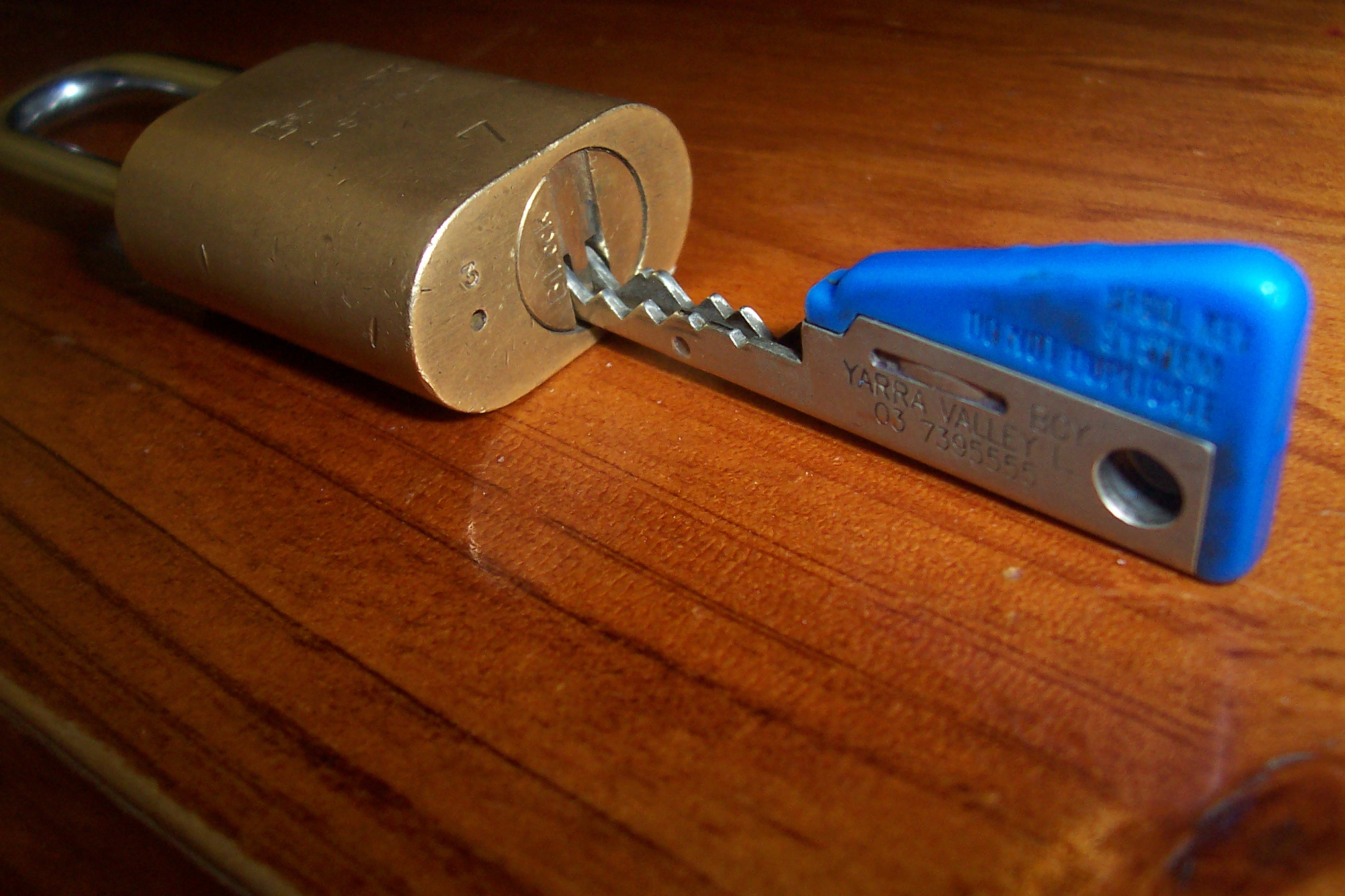 A high security dual-barrel lock used for security fences and other high security needs.